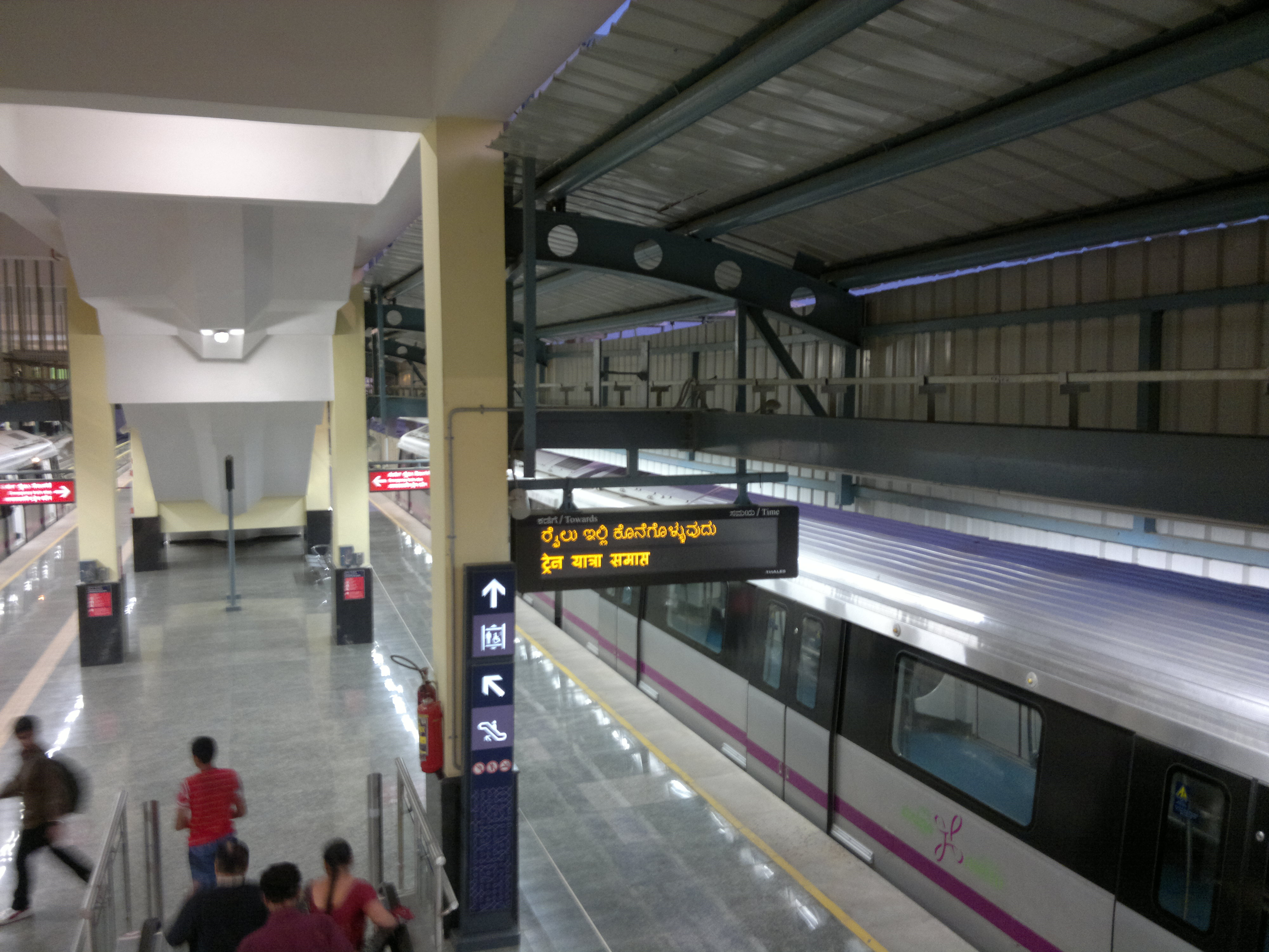 Pic from Namma Metro Baiyappanahalli station (area).